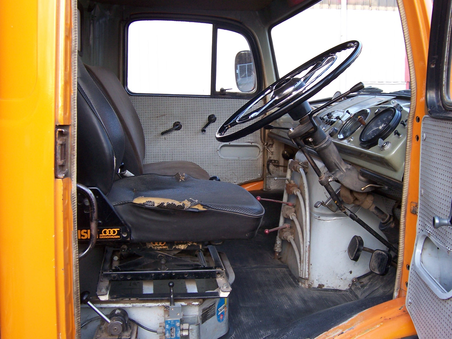 Mercedes Benz 1113 Street sweeper “Schörling” (1965)